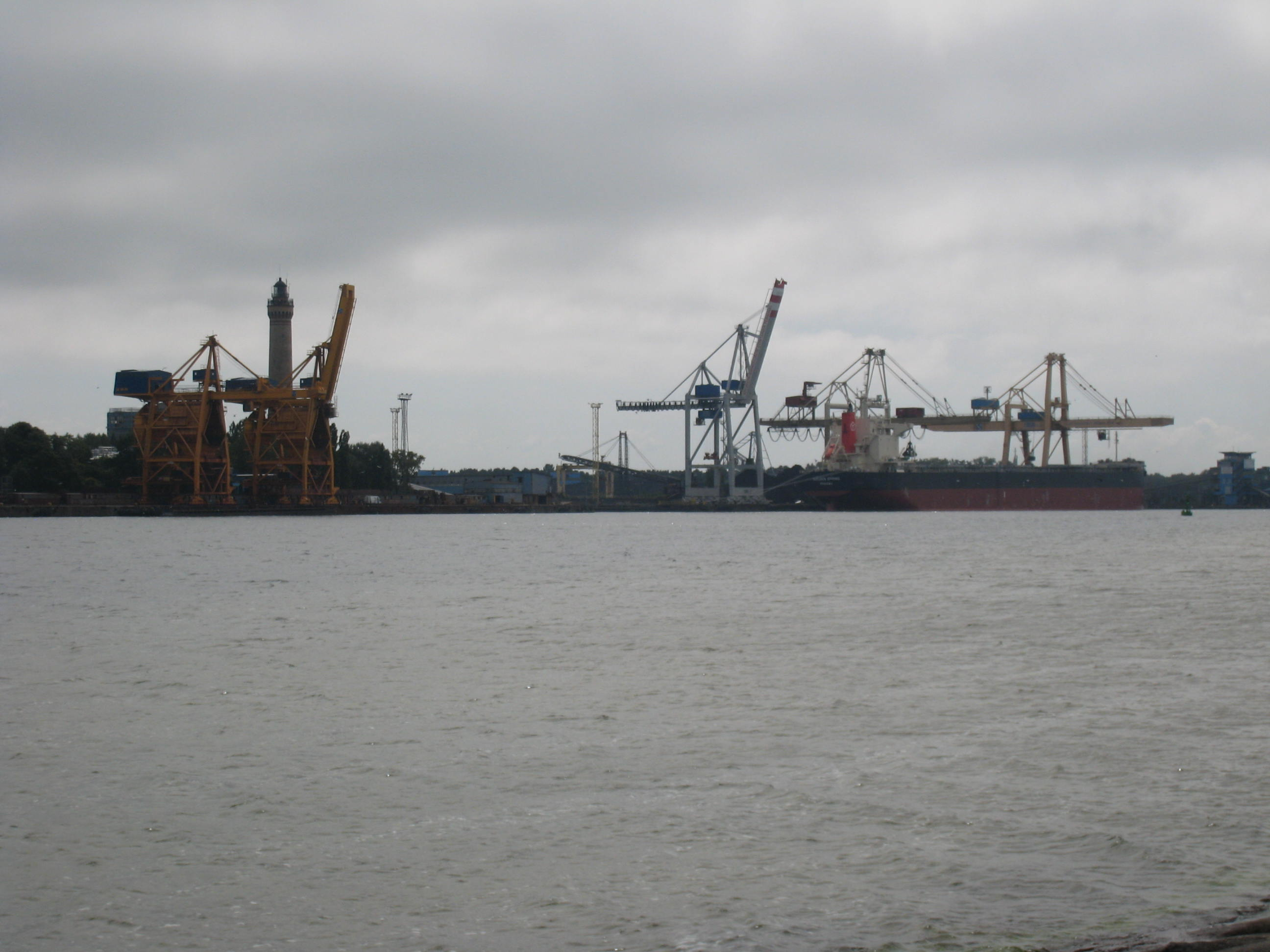 Port of Świnoujście